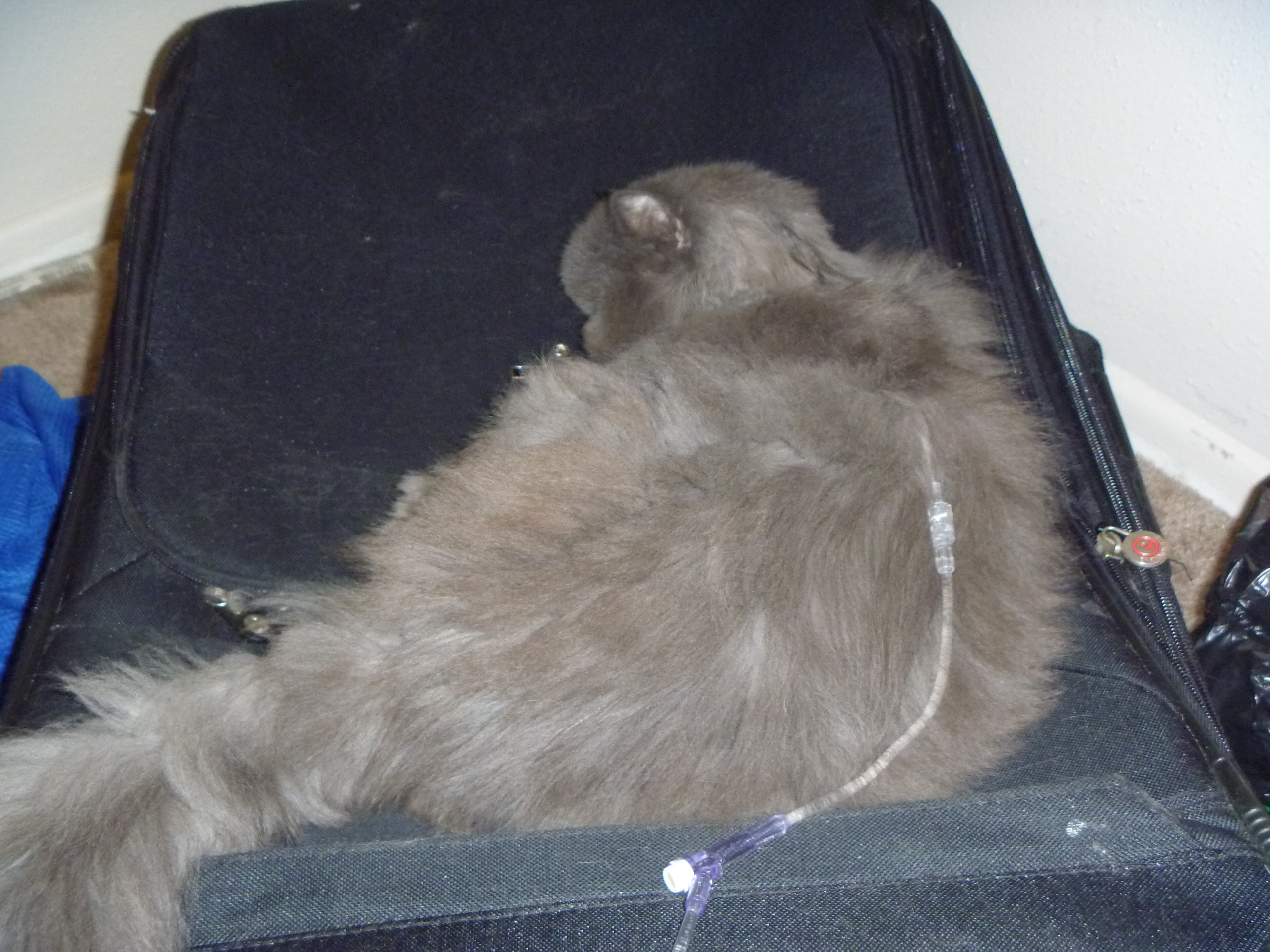 18 year old female smoke blue persian accepting subcutaneous fluids (Lactated Ringer's solution). Animal had been diagnosed with chronic renal failure (CRF) for over a year and also survived a stroke. Cat was euthanized 2 days later. Animal also had flea infestation, and eggs are visible on the dark background.